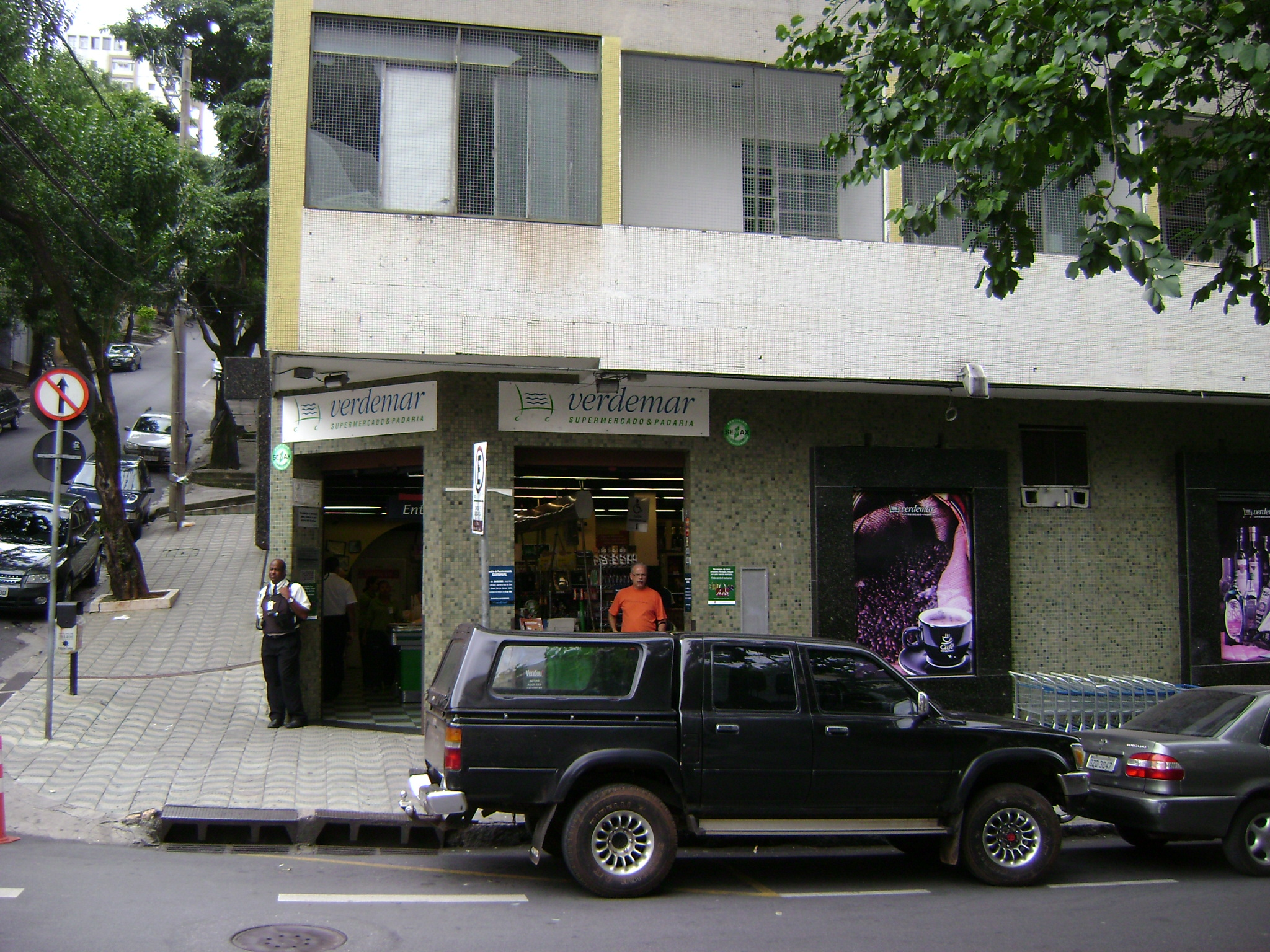 Supermercado Verde Mar, em Belo Horizonte.